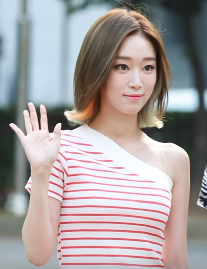 South Korean singer Soya at Music Bank on August 9, 2018.